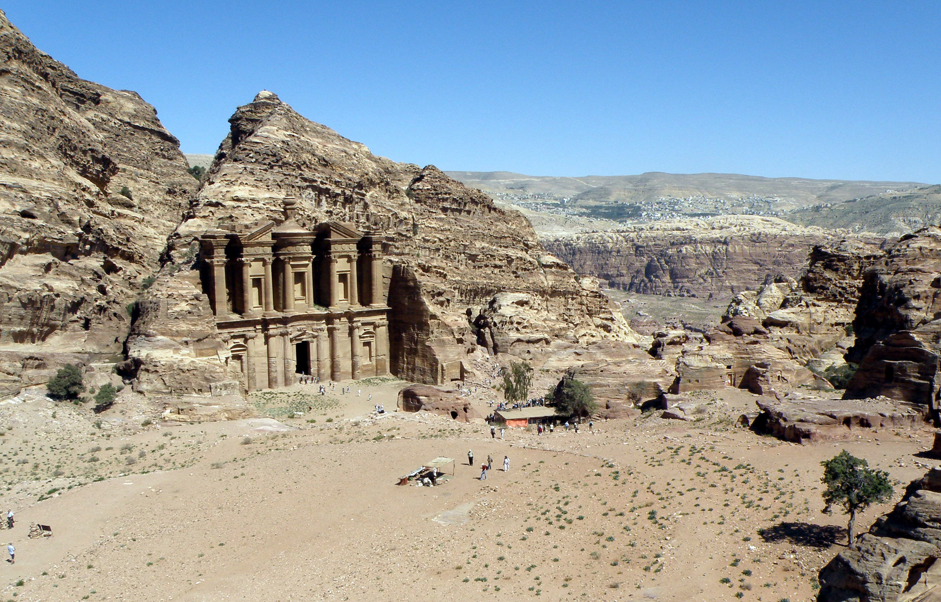 The Monastery oir Deir in Petra, Jordan